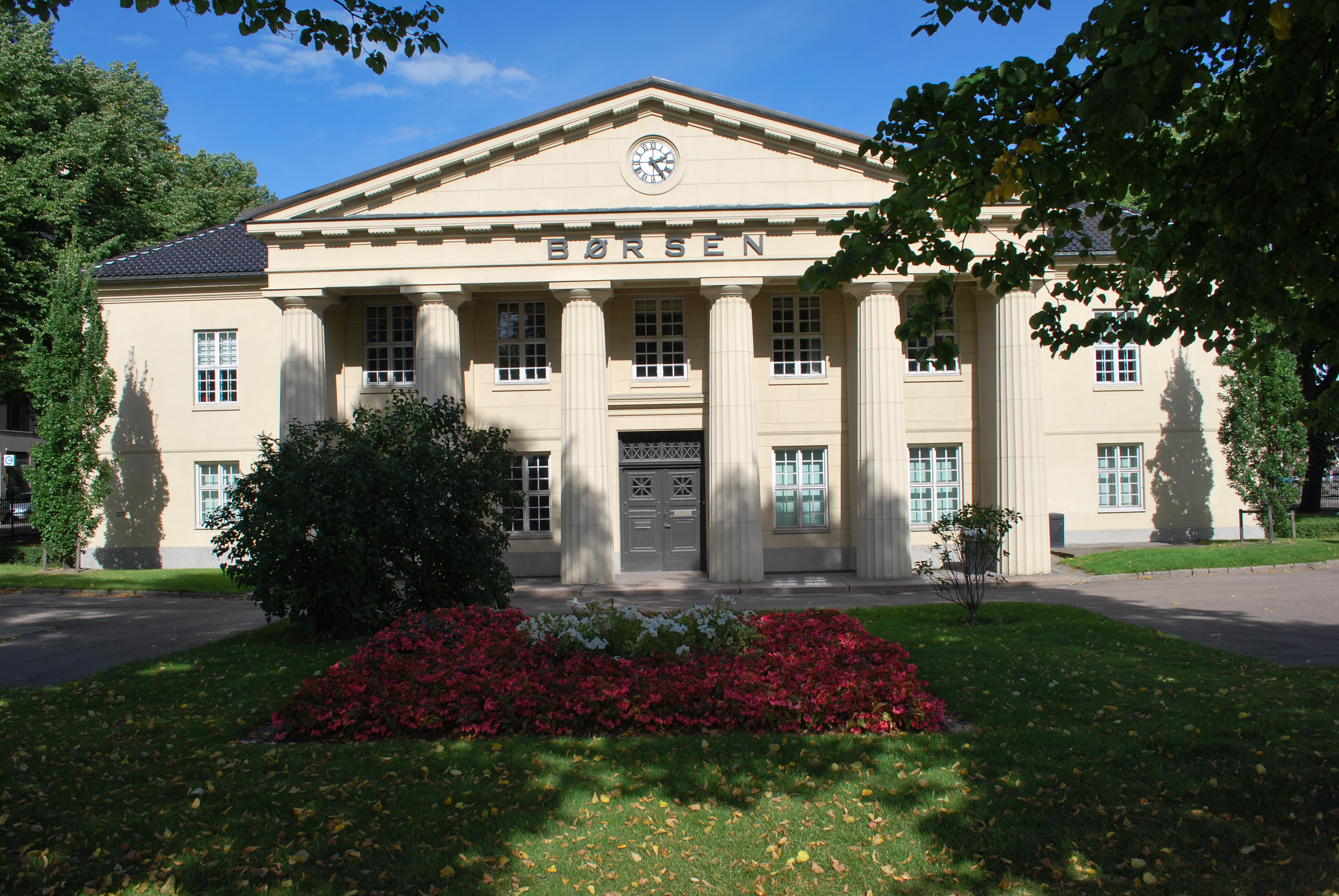 Oslo Stock Exchange (Oslo Børs), south wall and garden